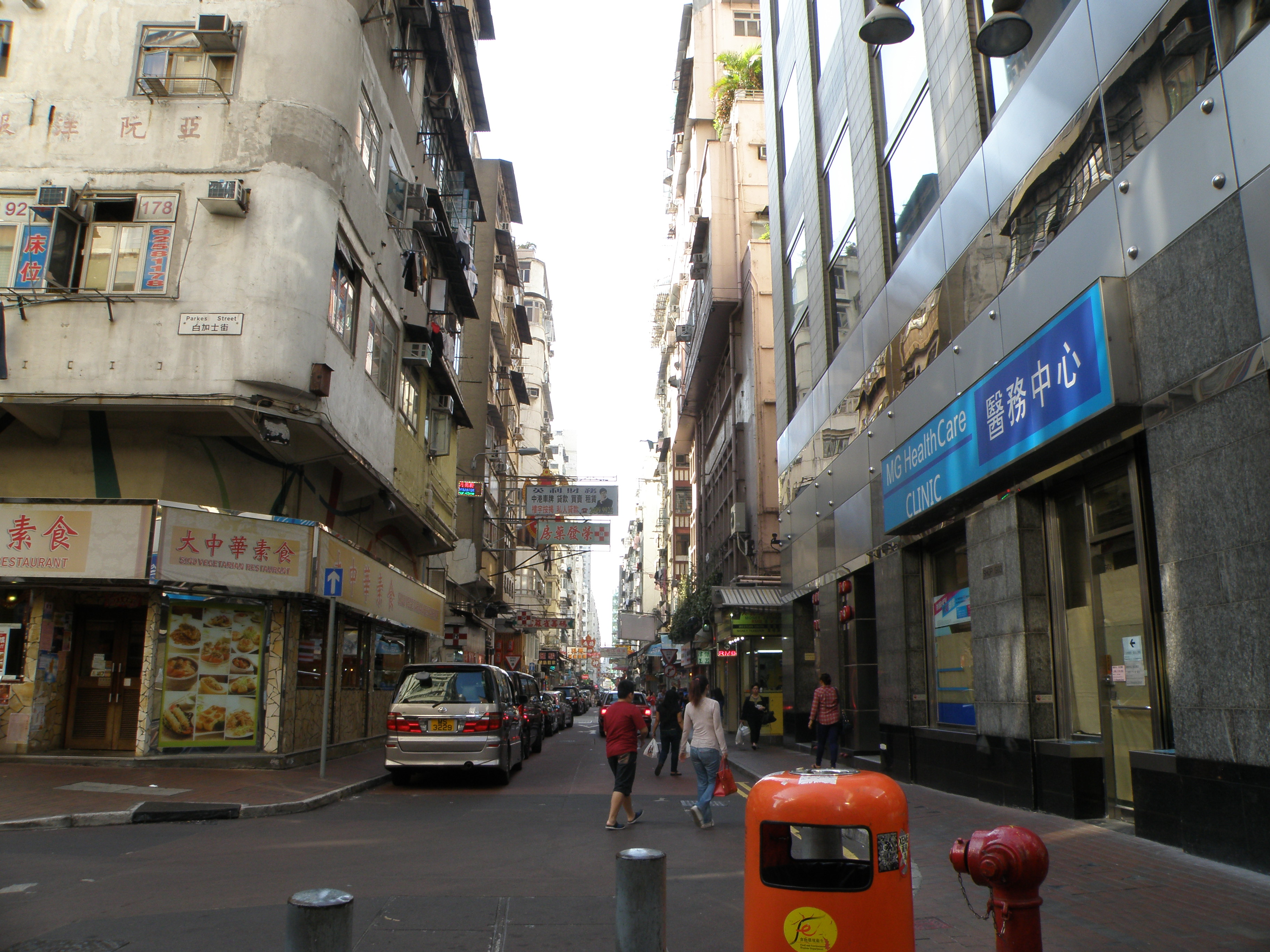 Saigon Street in Jordan, Hong Kong.